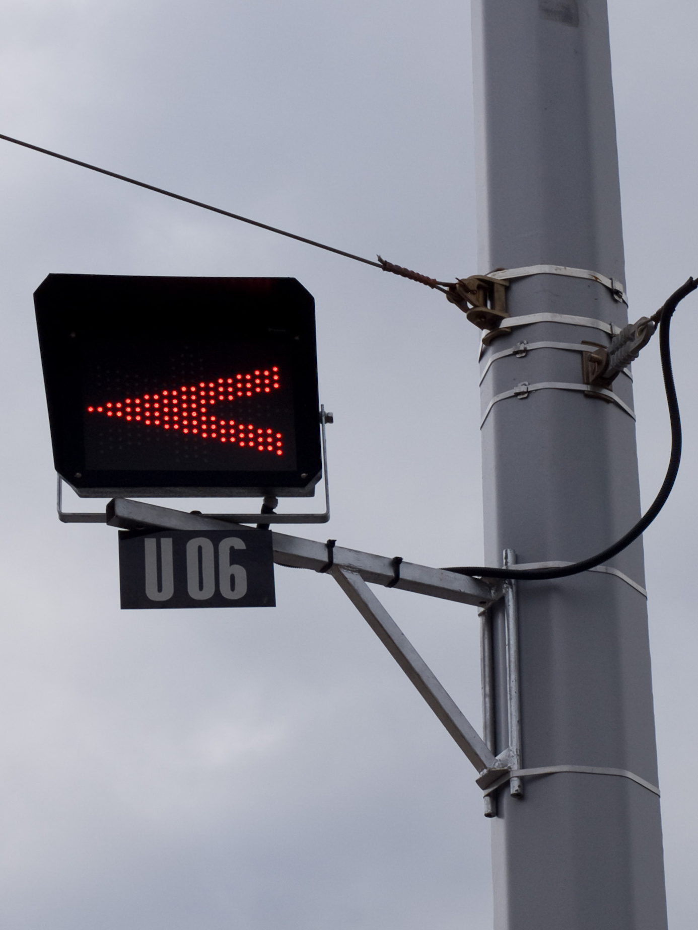 Tram loop Sídliště Řepy